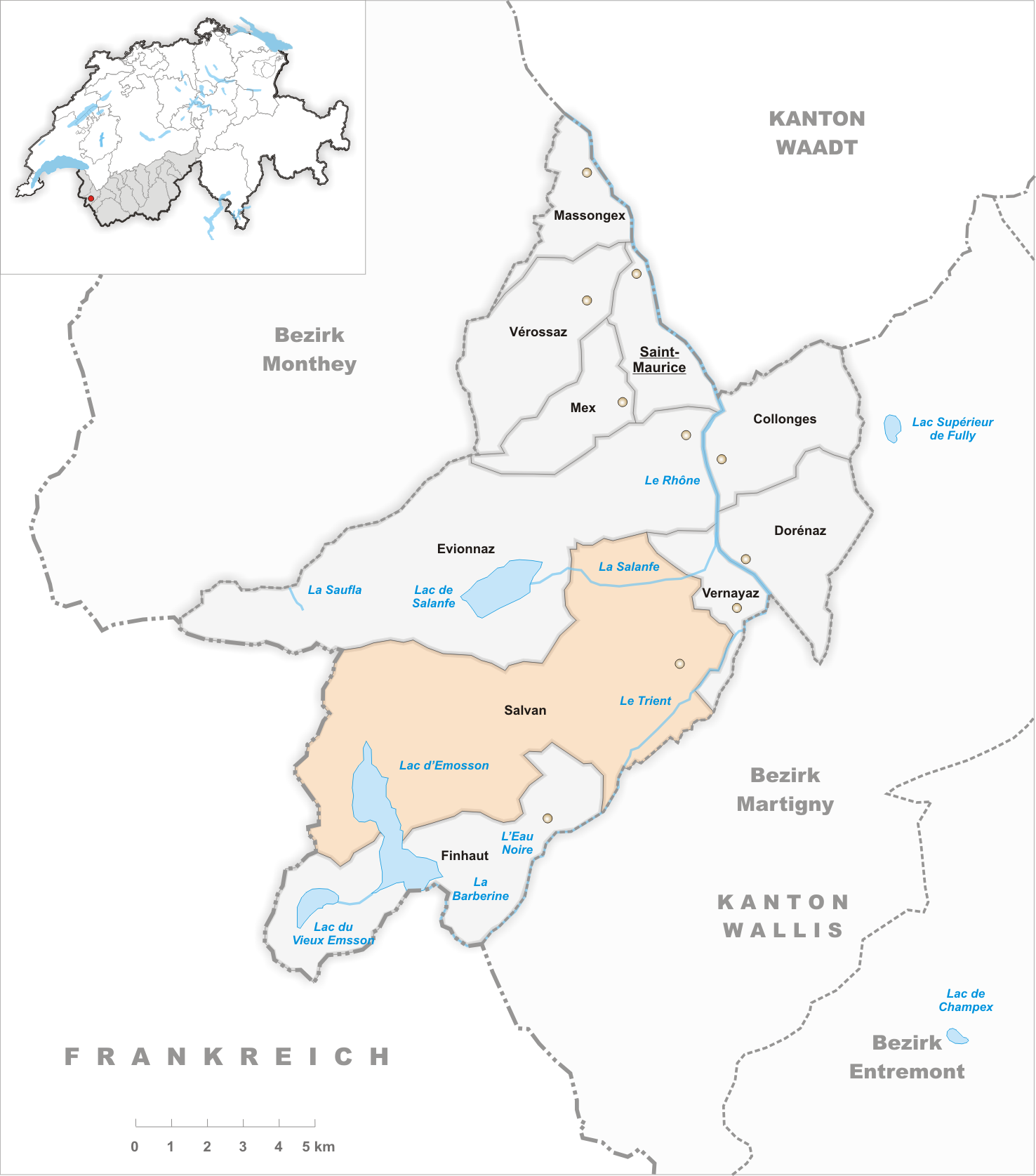 Municipality Salvan